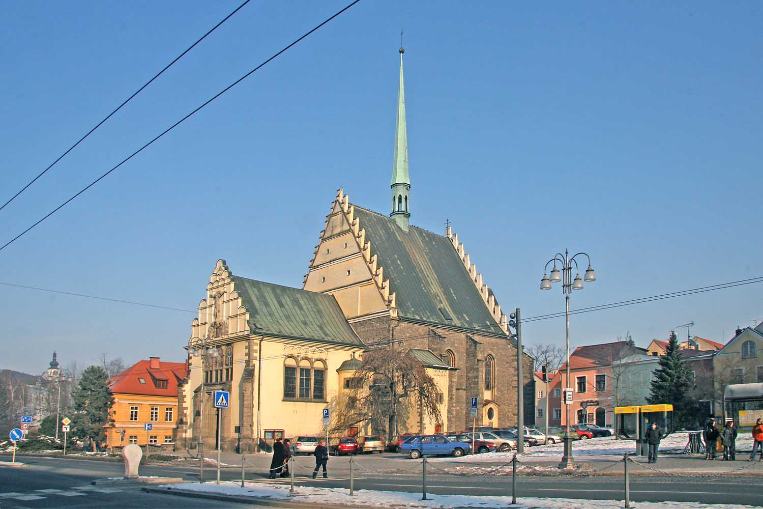 Saint Bartolomeo Church on Republic Square (Náměstí Republiky) in Pardubice, Czech Republic